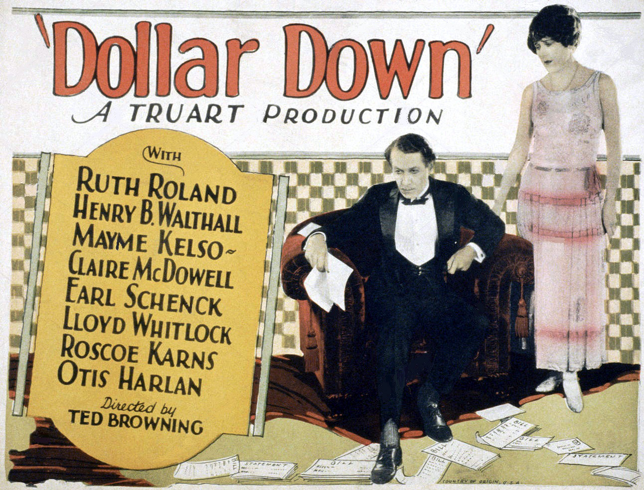 Lobby card for the American drama film Dollar Down (1925). A search for renewal was done in both film and artwork for the years 1953 and 1954. There were no listings for the film title or listings for Co-Artist Productions or Truart in artwork or motion pictures. There is no evidence of continuing copyright for the film or materials related to it.